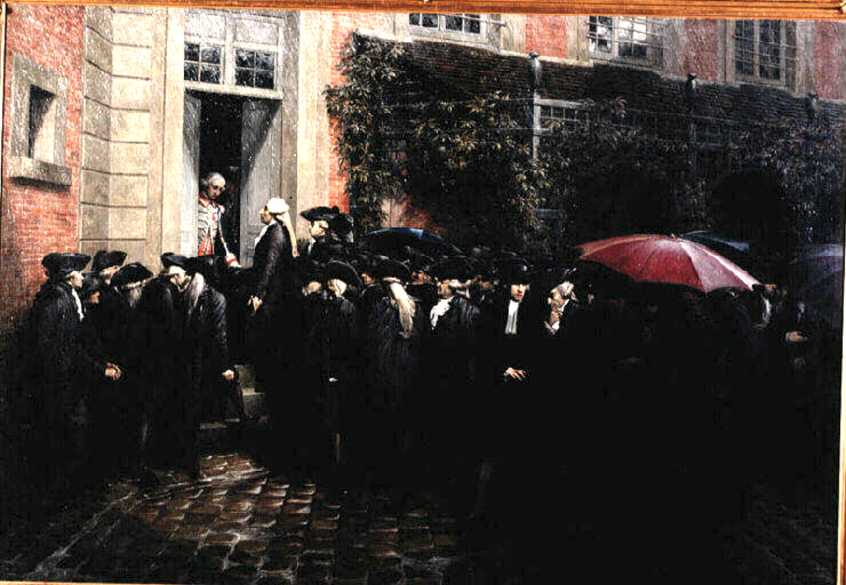 Third Estate representatives locked out of the assembly room Hôtel des Menus-Plaisirs in Versailles.